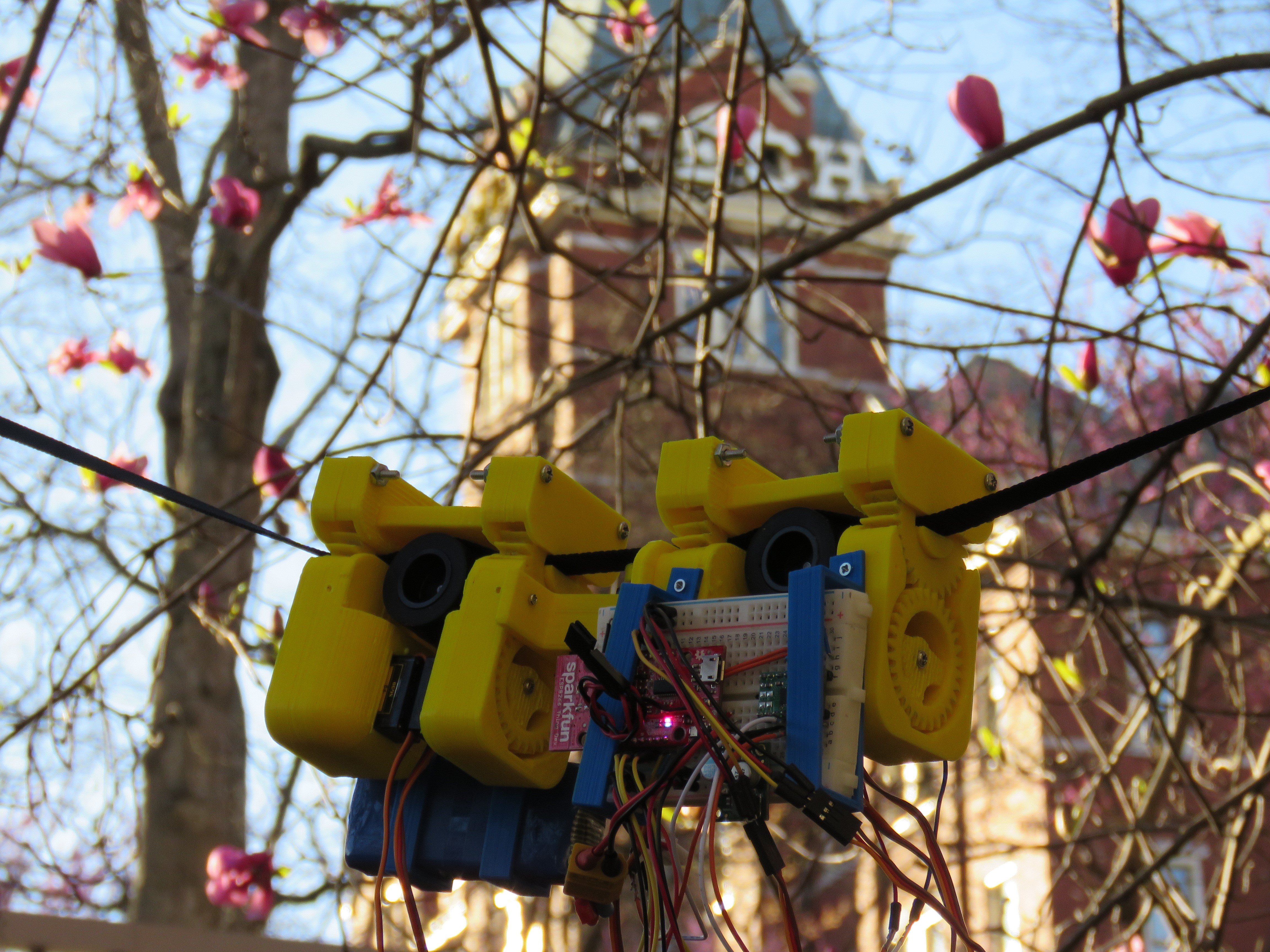 The SlothBot is a slow but hyper power-efficient, cable traversing robot developed in Dr. Egerstedt’s lab for performing long-term environmental monitoring tasks.